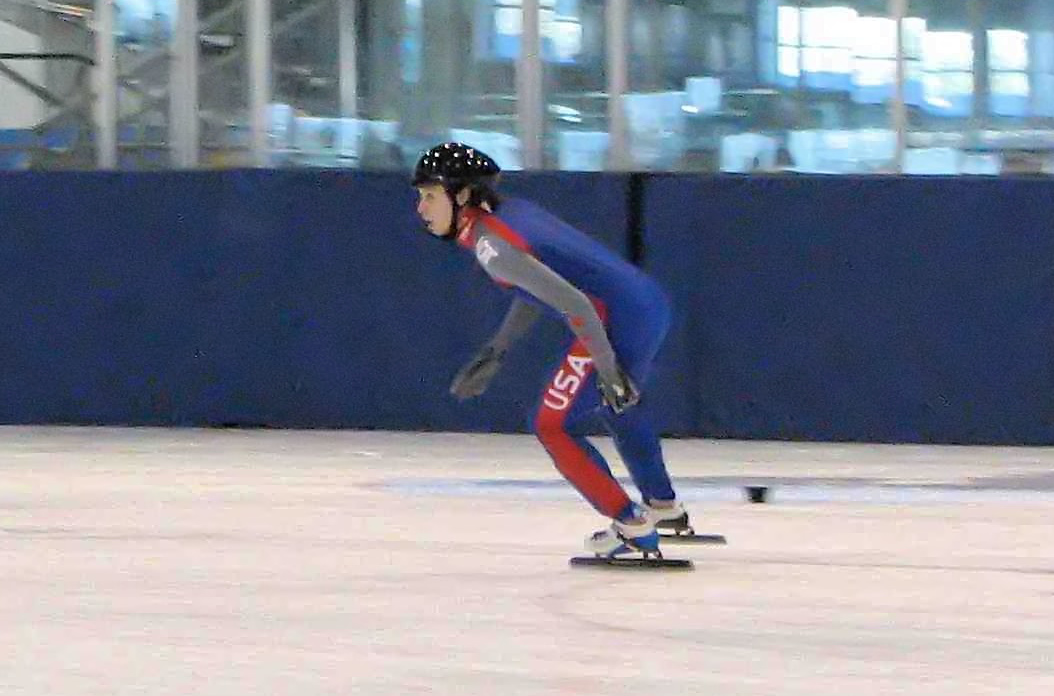 Jonathan Garcia get's ready for a tag whiel practing short track speed skating at the Oval Ice Clinic in Utah